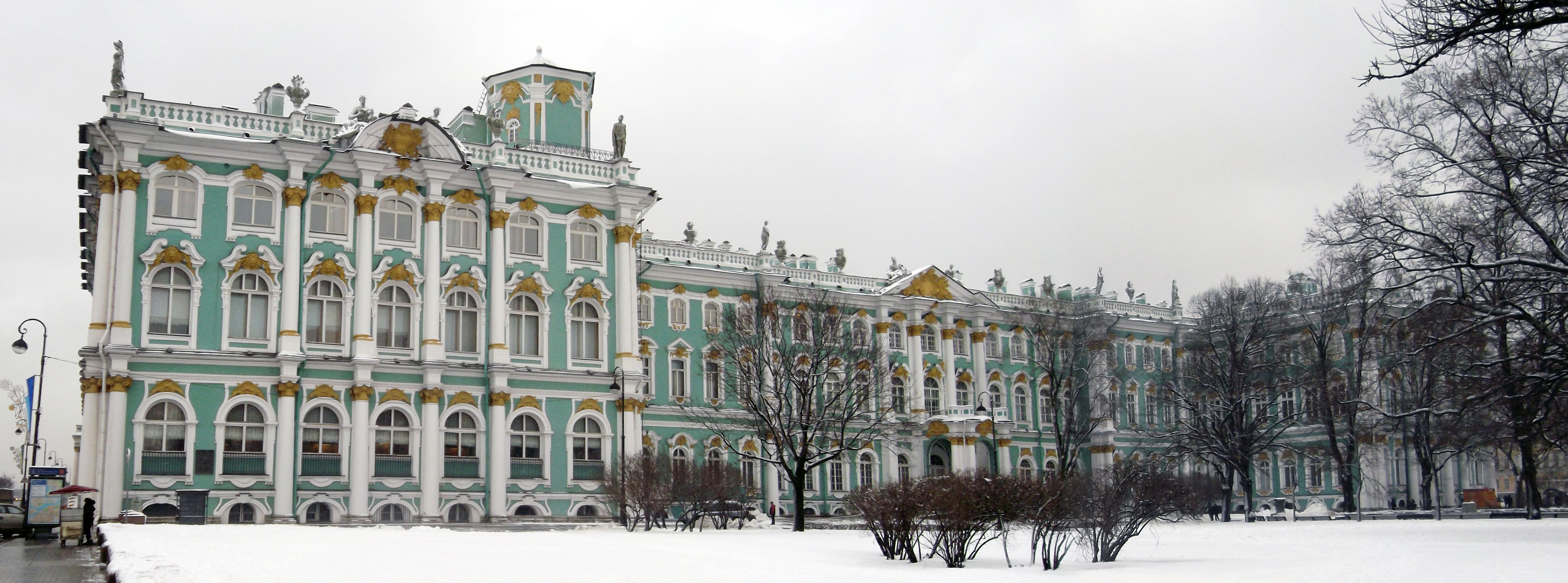 Winter Palace